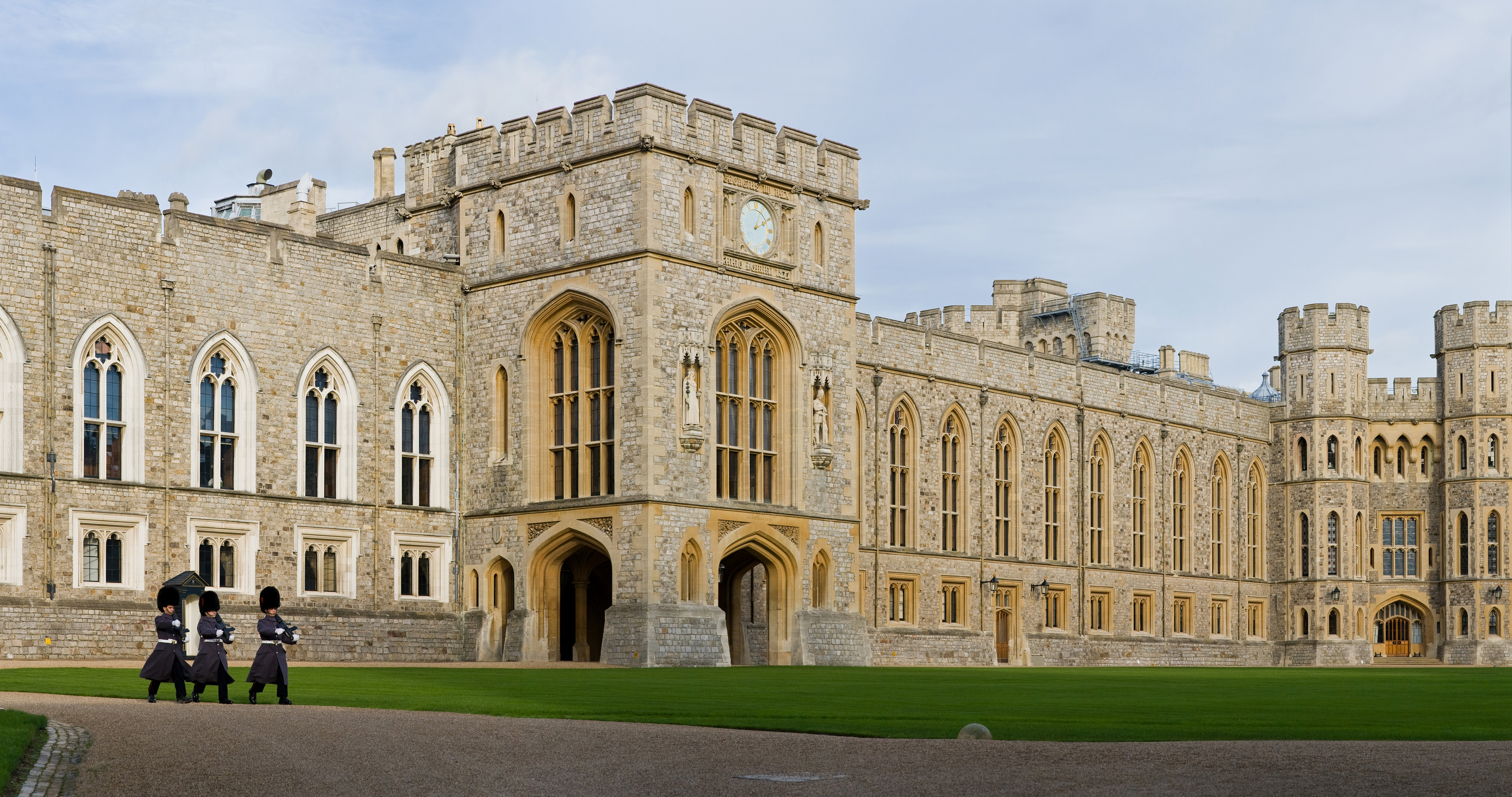 Windsor Castle Upper Ward Quadrangle panoramic view.